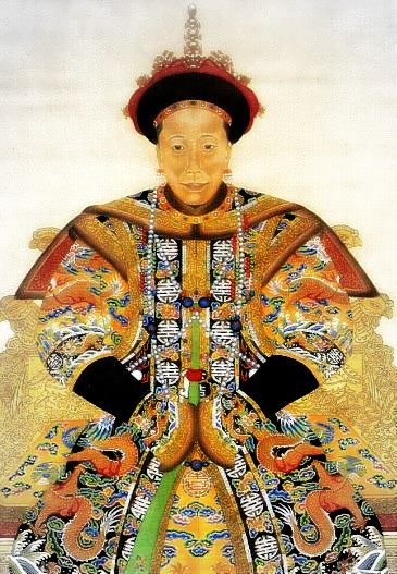 The Official Imperial Portrait of the Qing Dynasty Empress Longyu (a.k.a. Empress XiaoDing of Dezong)